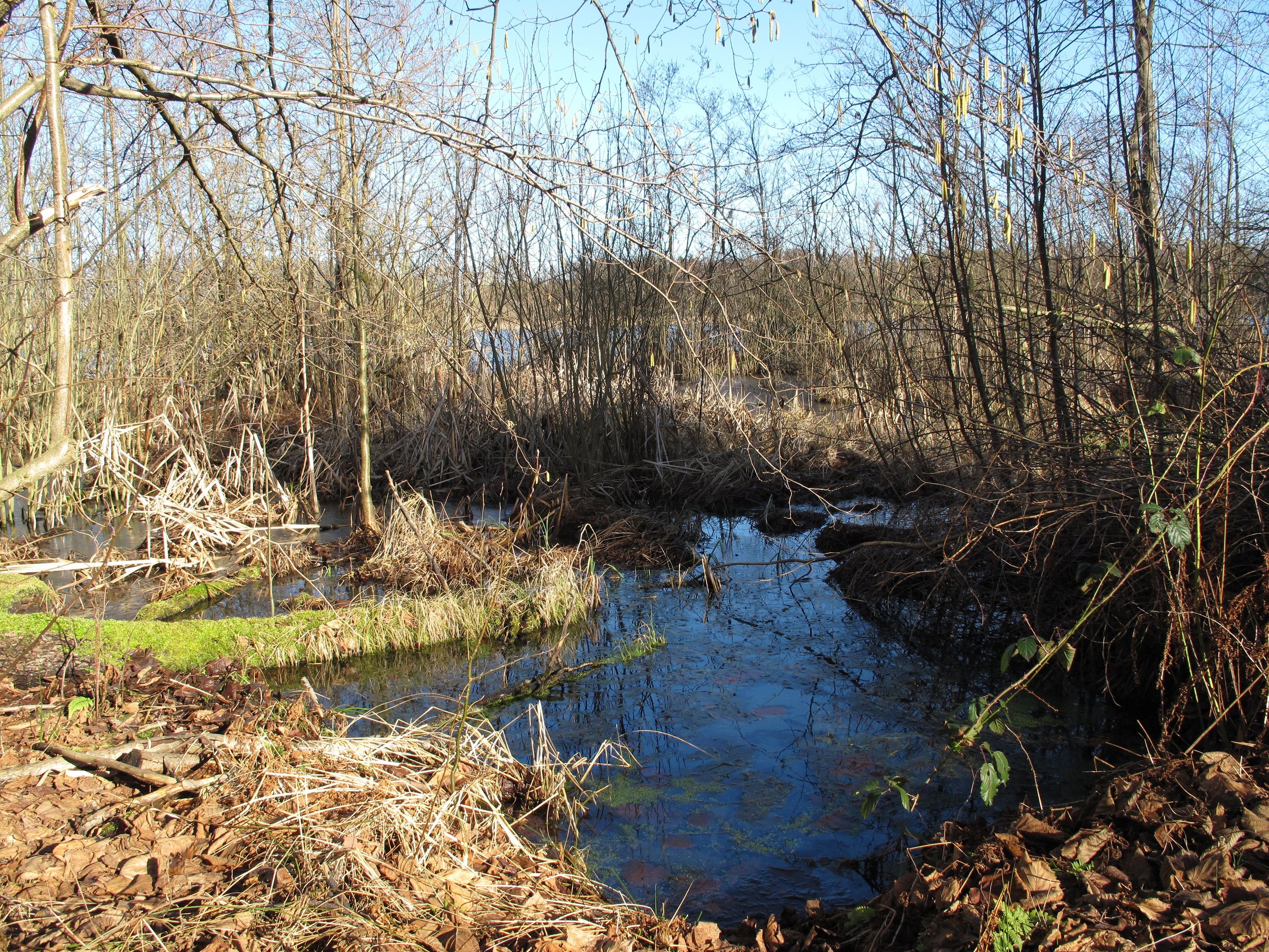 The Linowsee is a lake in Streganz, a village of the municipality Heidesee, District Dahme-Spreewald, Brandenburg, Germany. The lake covers 8,5 hectare and has a depth of about 1,20 meters. It is situated in the Dahme-Heideseen Nature Park and a central part of the Naturschutzgebiet (protected area) and Natura 2000-area Linowsee-Dutzendsee.